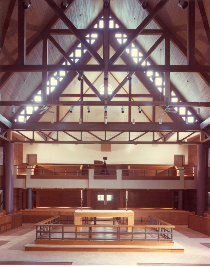 Church of the Good Shepherd in Friendswood, TX by William T. Cannady, 1981